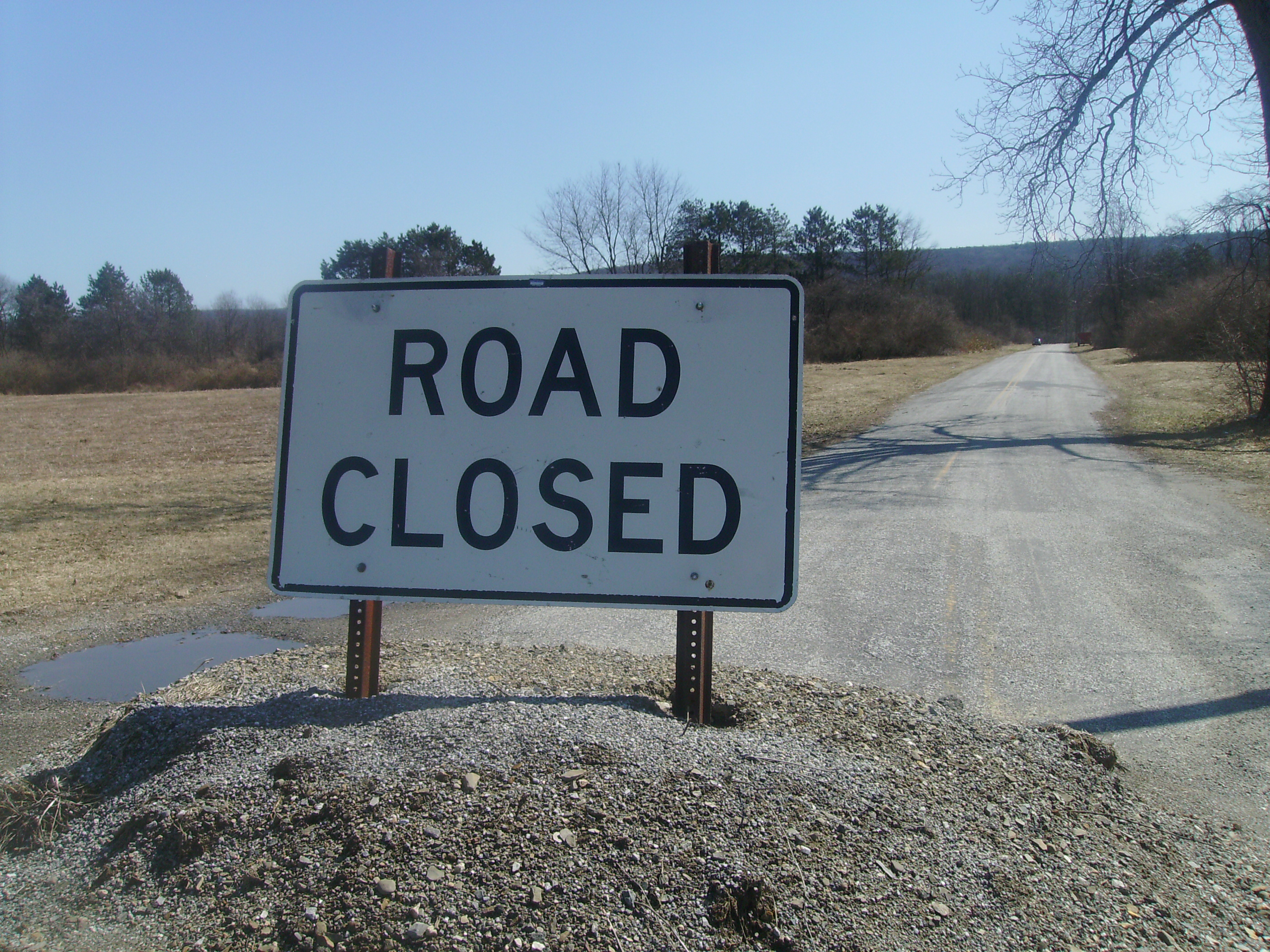 Abandoned CR 615's barricade in Peters Valley